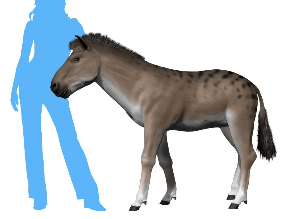 Life restoration of Merychippus insignis